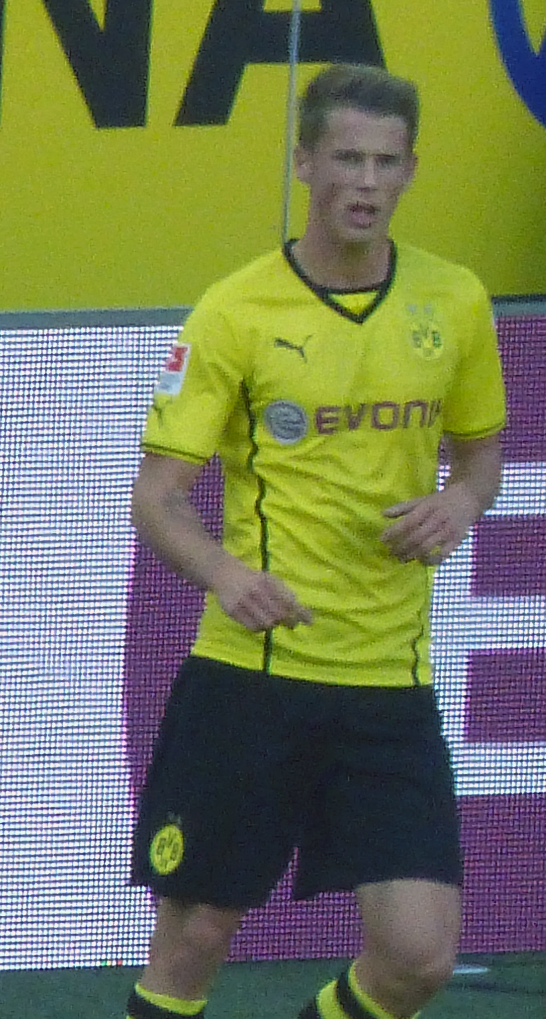 Borussia Dortmund player Erik Durm during Dortmund's 5-0 victory against SC Freiburg.